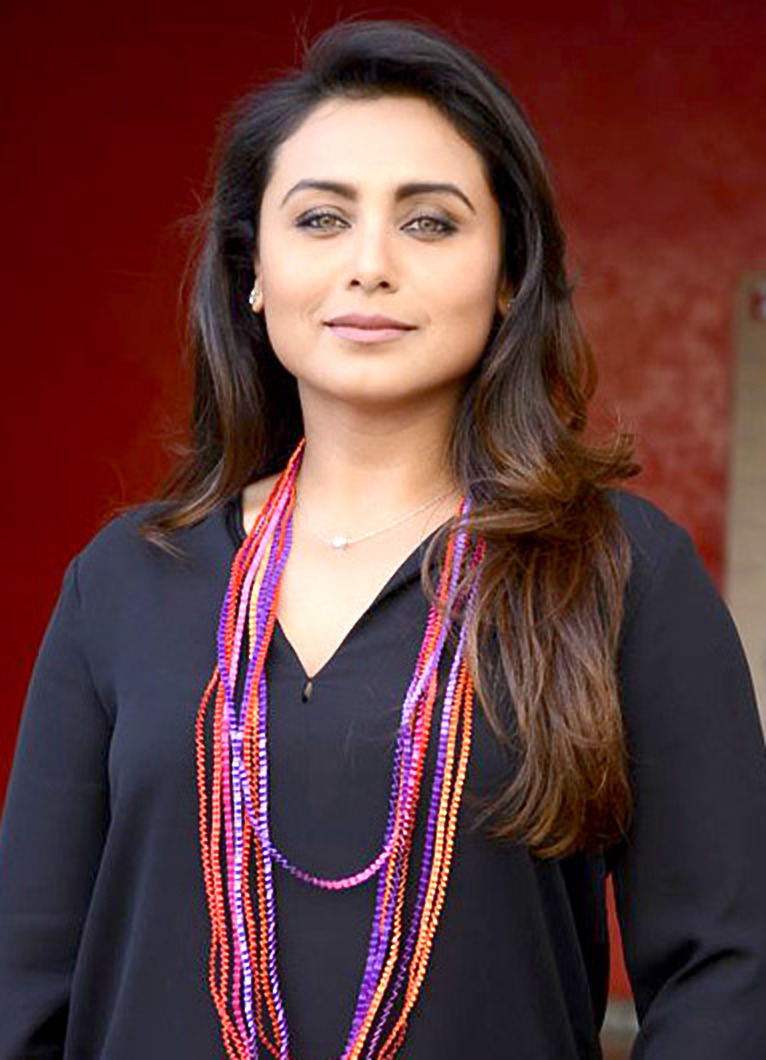 Rani Mukerji promoting Hichki in 2018